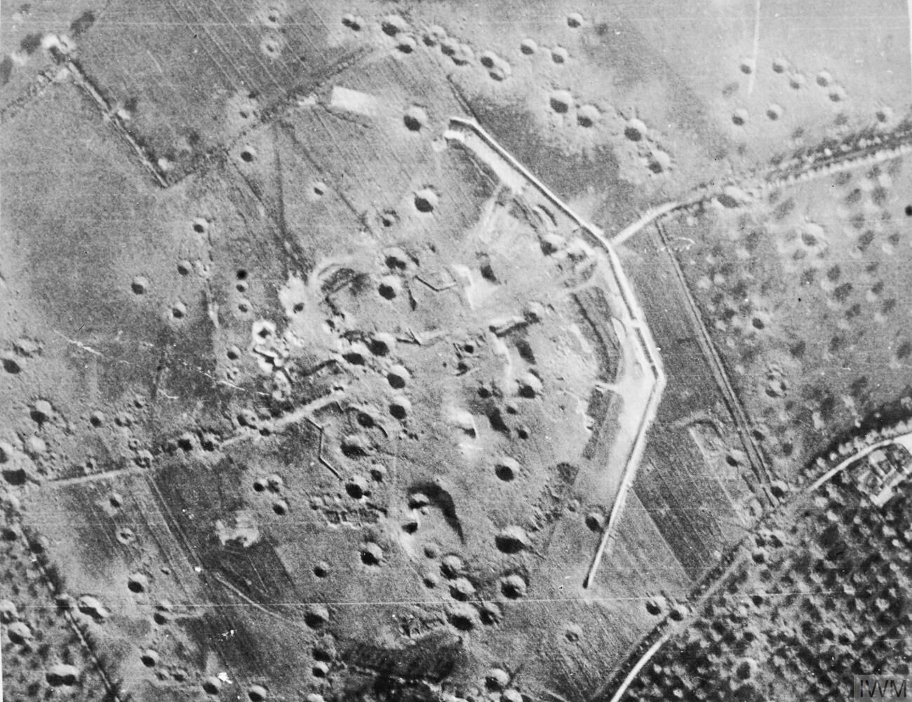 IWM caption : PHOTOGRAPHIC INTELLIGENCE FOR OPERATION 'OVERLORD'. Overhead aerial of the gun battery at Merville (3km east of Ouistreham) consisting of four medium casemates, after air bombardment, c May 1944. Bombing failed to penetrate the casemates and, because of the threat the battery posed to the landings on SWORD Area, it was attacked and neutralised by 9th Bn the Parachute Regiment in the early hours of 6 June.